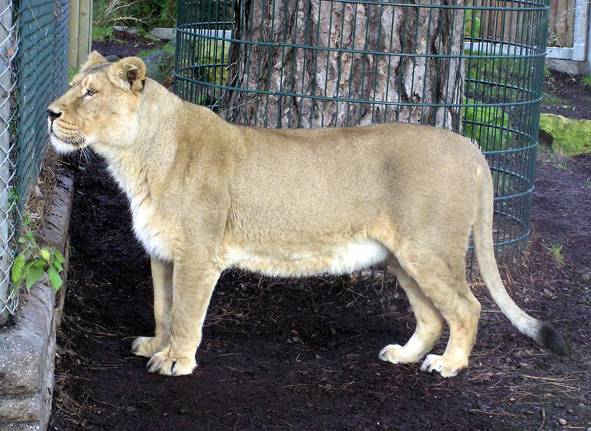 Asiatic Lioness (Panthera leo persica), name MOTI, born Helsinki Zoo (Finland) in October 1994, arrived Bristol Zoo (England) in January 1996